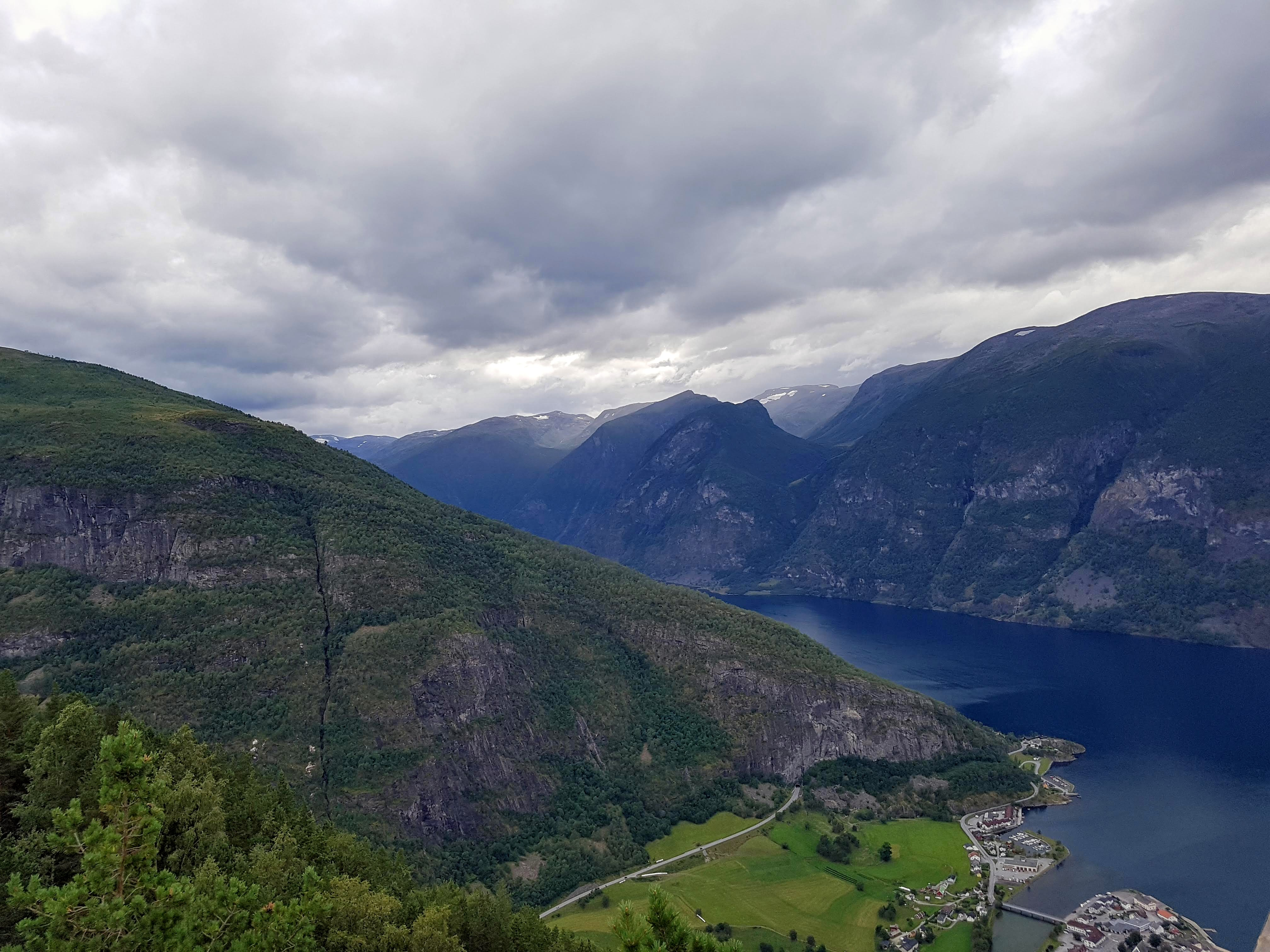 Stegastein viewpoint showing Aurlandsfjord